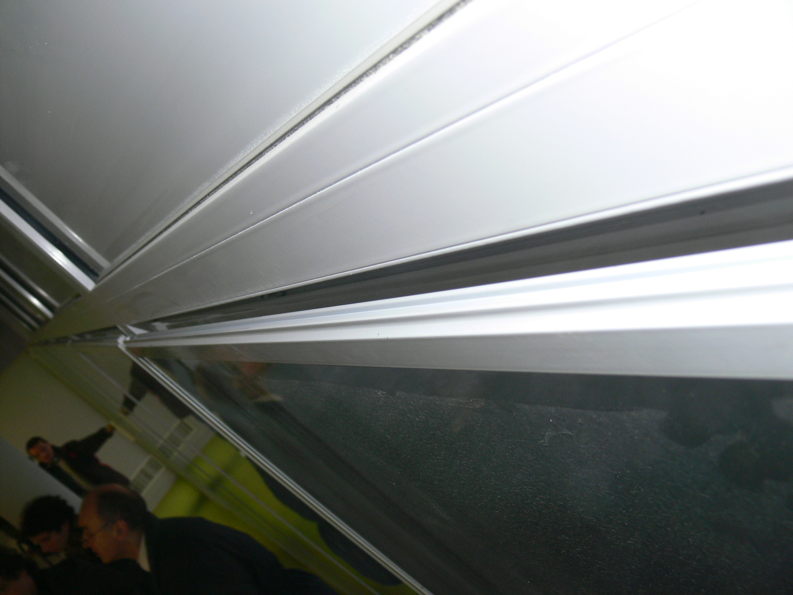 Upper view of au Special windows in a Retirement home (for energy efficiency), in Trith-Saint-Léger, in north of France, (dept : 59) in Nord-Pas-de-Calais region, made with ecological principles.